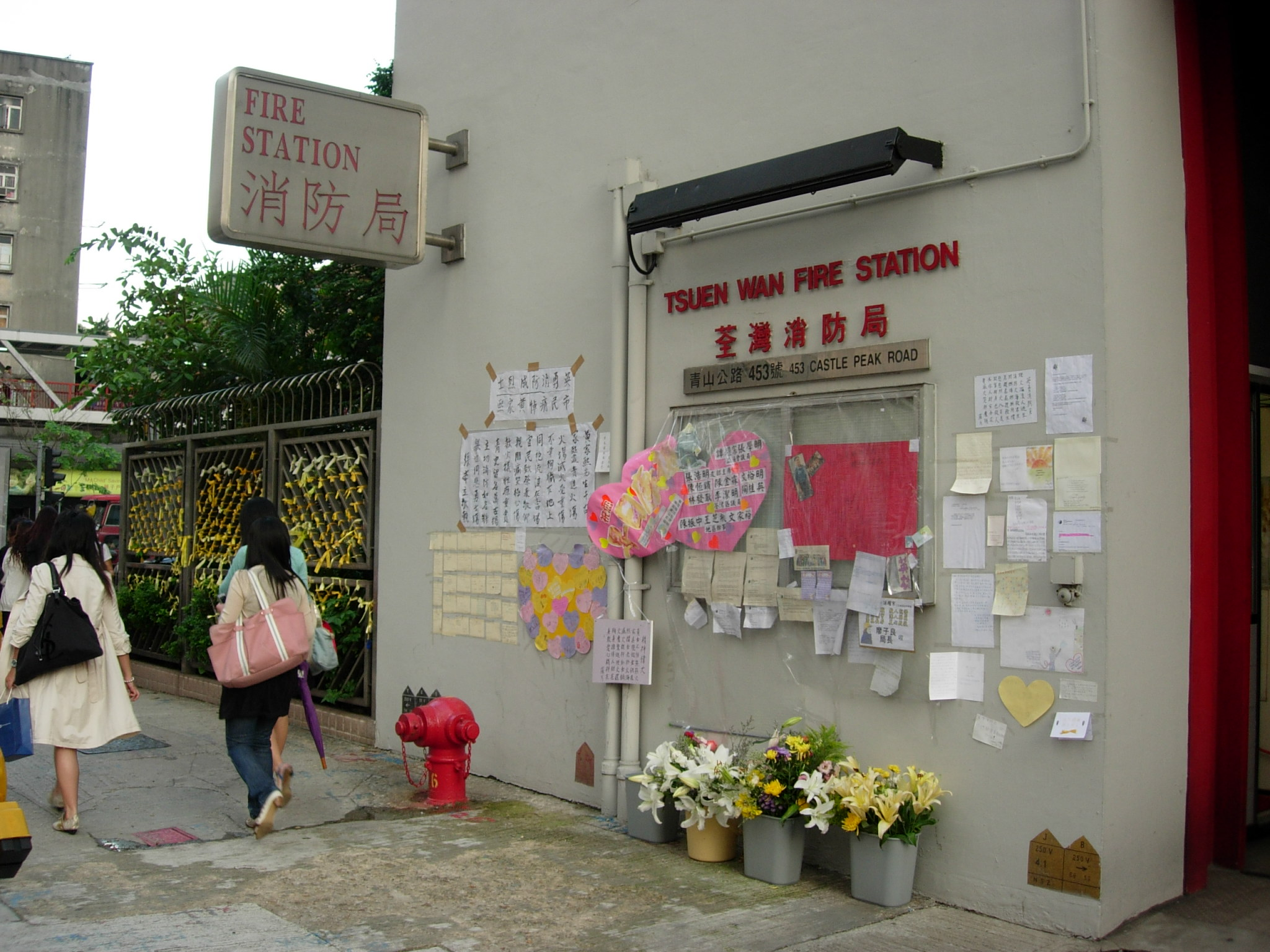 Memorial of Wong Ka-hei outside Tseun Wan Station